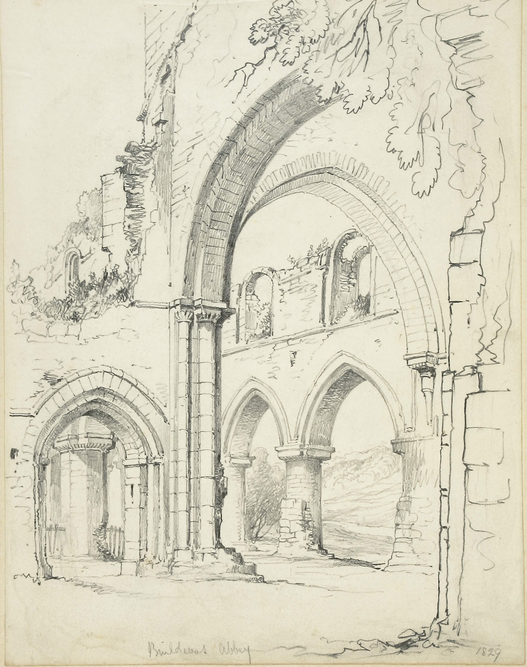 Buildwas Abbey, drawn from the south transept, looking diagonally through the crossing towards the nave. Pencil on paper; 179 x 234mm Inscr. bc.: Buildwas Abbey, and br.: 1829 Accession: BIRSA:2007X.506 From the Lines family sketchbook, in the collection of the Royal Birmingham Society of Artists, Birmingham, England. See Rediscovering the Lines Family - Exhibition catalogue - 2009.